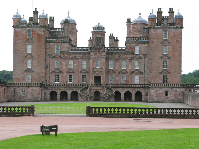 Drumlanrig Castle History of Drumlanrig Castle available in the Gazetteer for Scotland website